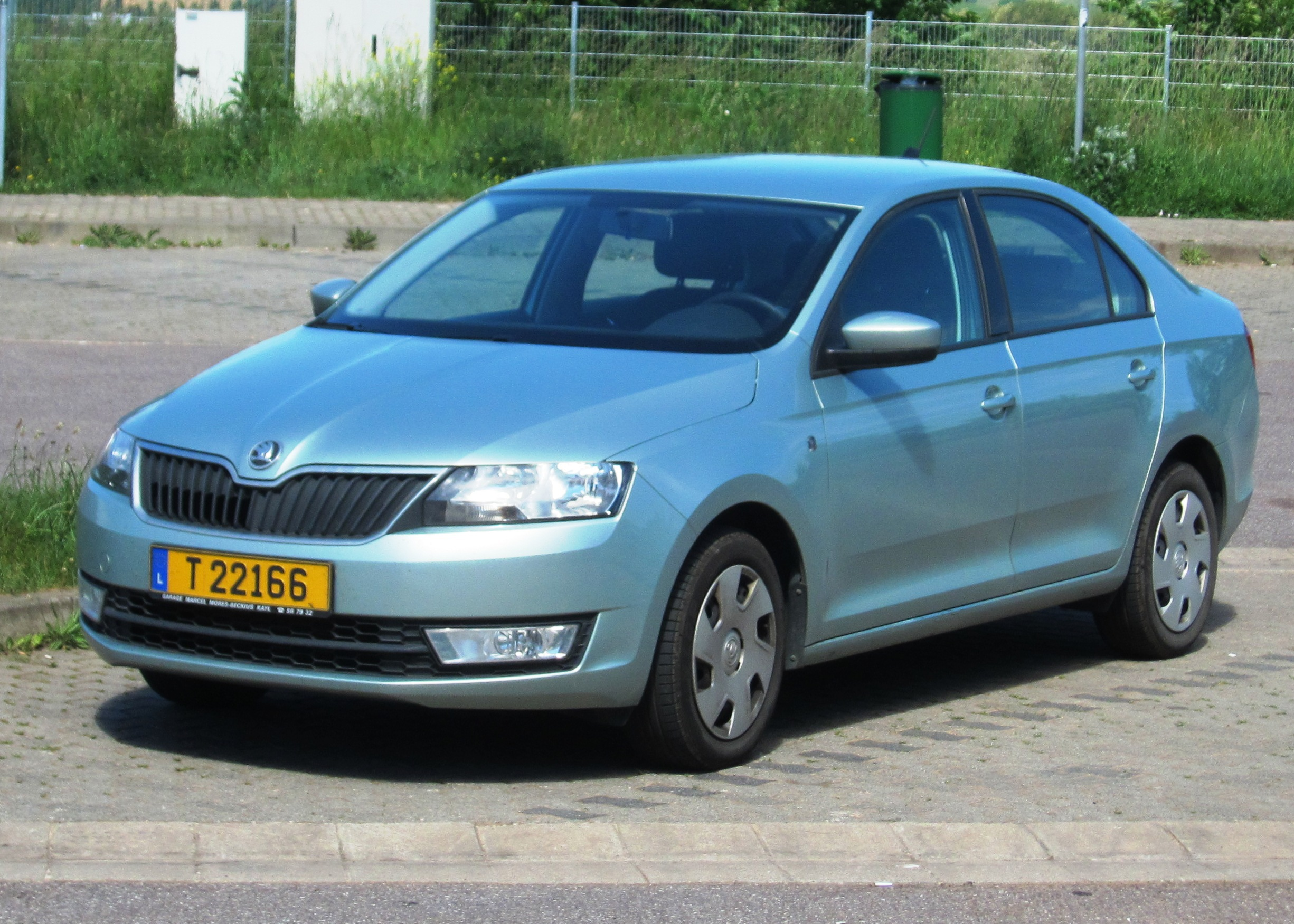 Skoda Rapid (just) outside Luxembourg The license plate has been changed for anonymisation purposes. The picture is otherwise undoctored